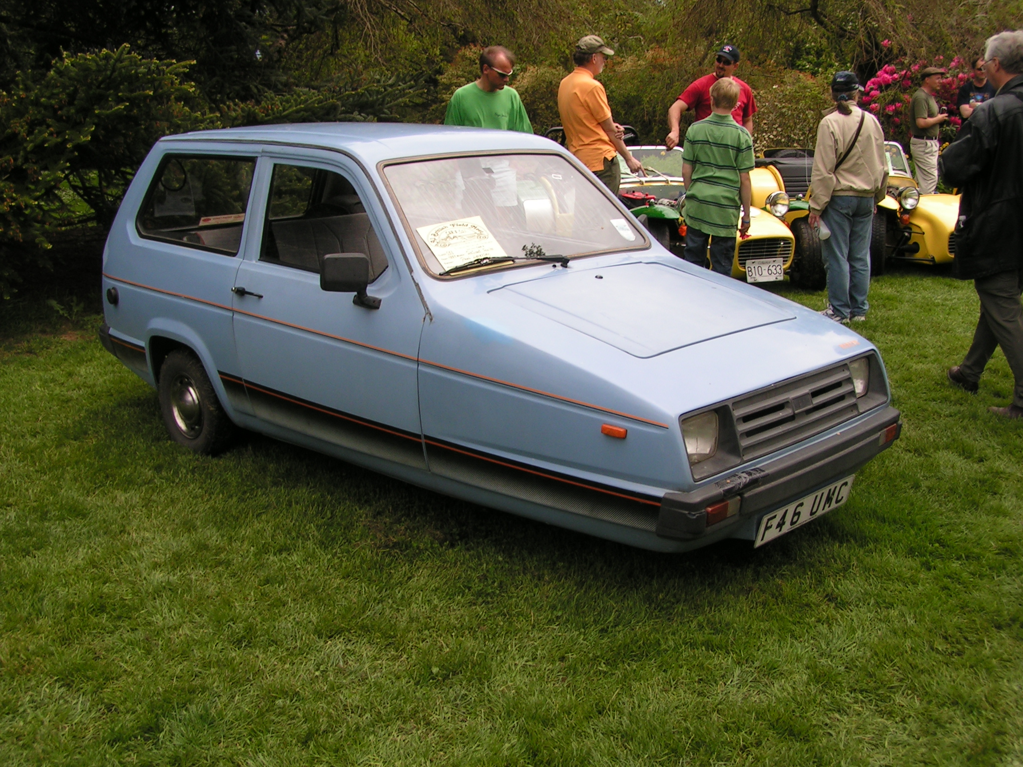 1989 Reliant Rialto.